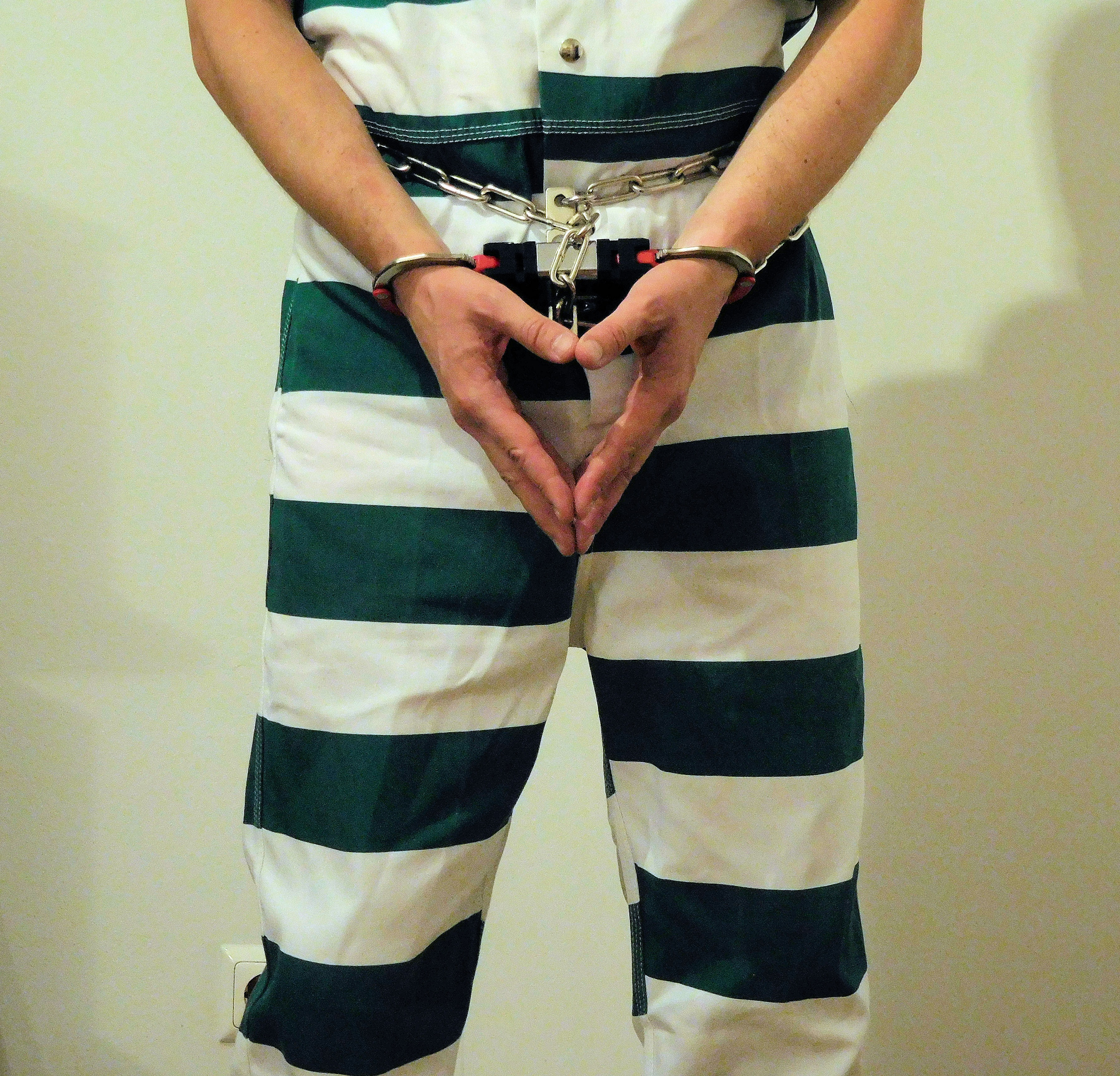 prisoner wearing hancuffs with a "blue box" security cover, secured with a chain around his waist and a padlock